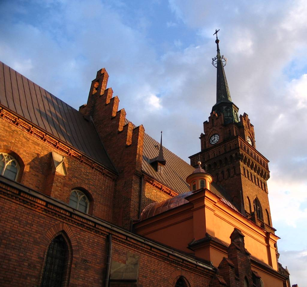 Poland - Tarnów - Cathedral Church Author: Marcin Wojciech